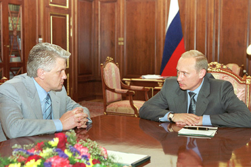 THE KREMLIN, MOSCOW. President Putin with the Chief of Ukrainian President's Staff, Vladimir Litvin.